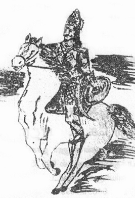 Illustration of Ananthapadmanabhan used in Srī aṉanthapdmaṉābhan nāṭārin 312-vatu piṟantanāḷ viḻa malaṟ. File is a scan copy of image used on the title page and edited with Adobe Photoshop 7.0